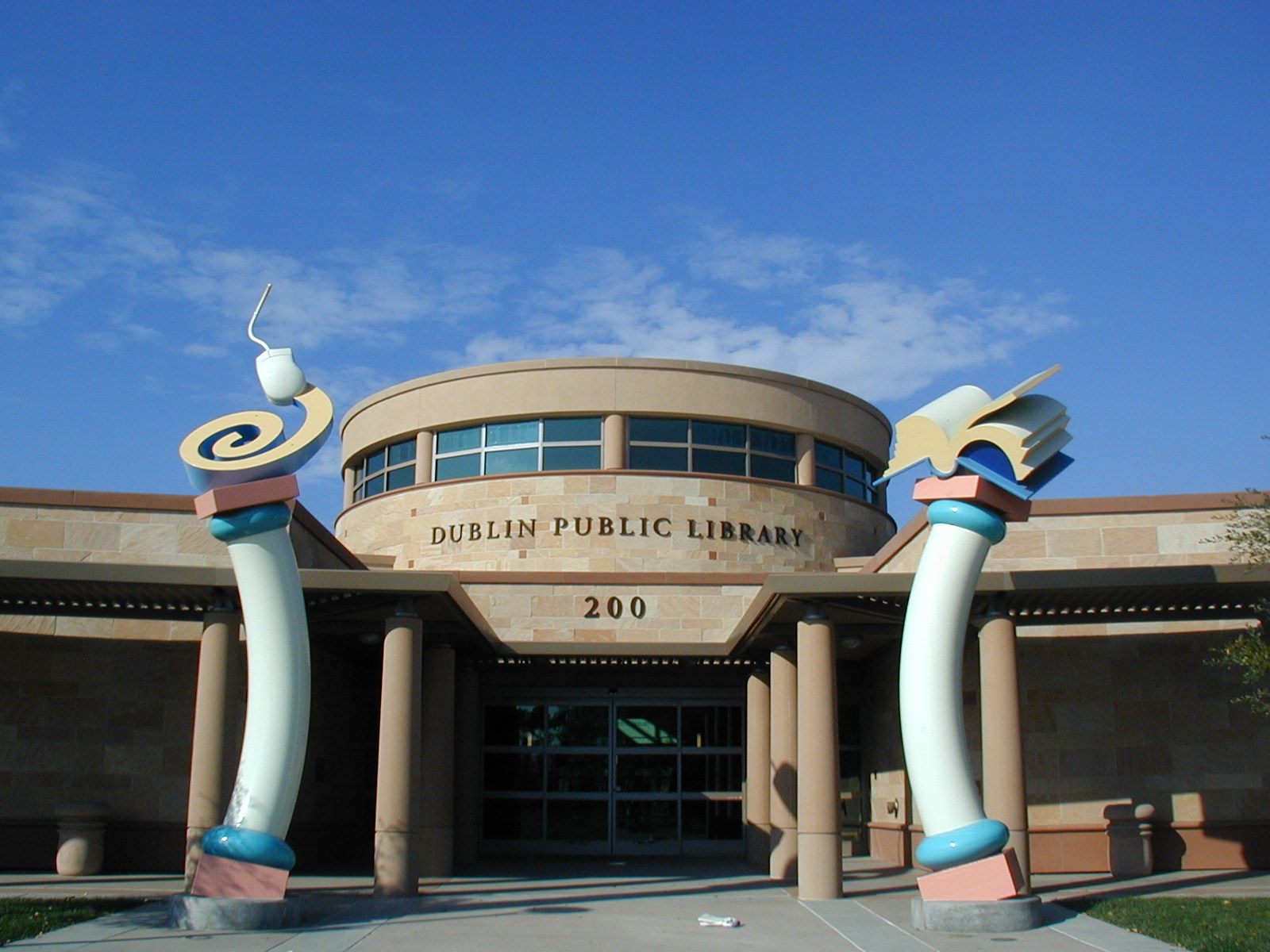 Photo by Rich Walker This is a photo of the public library in Dublin, California.